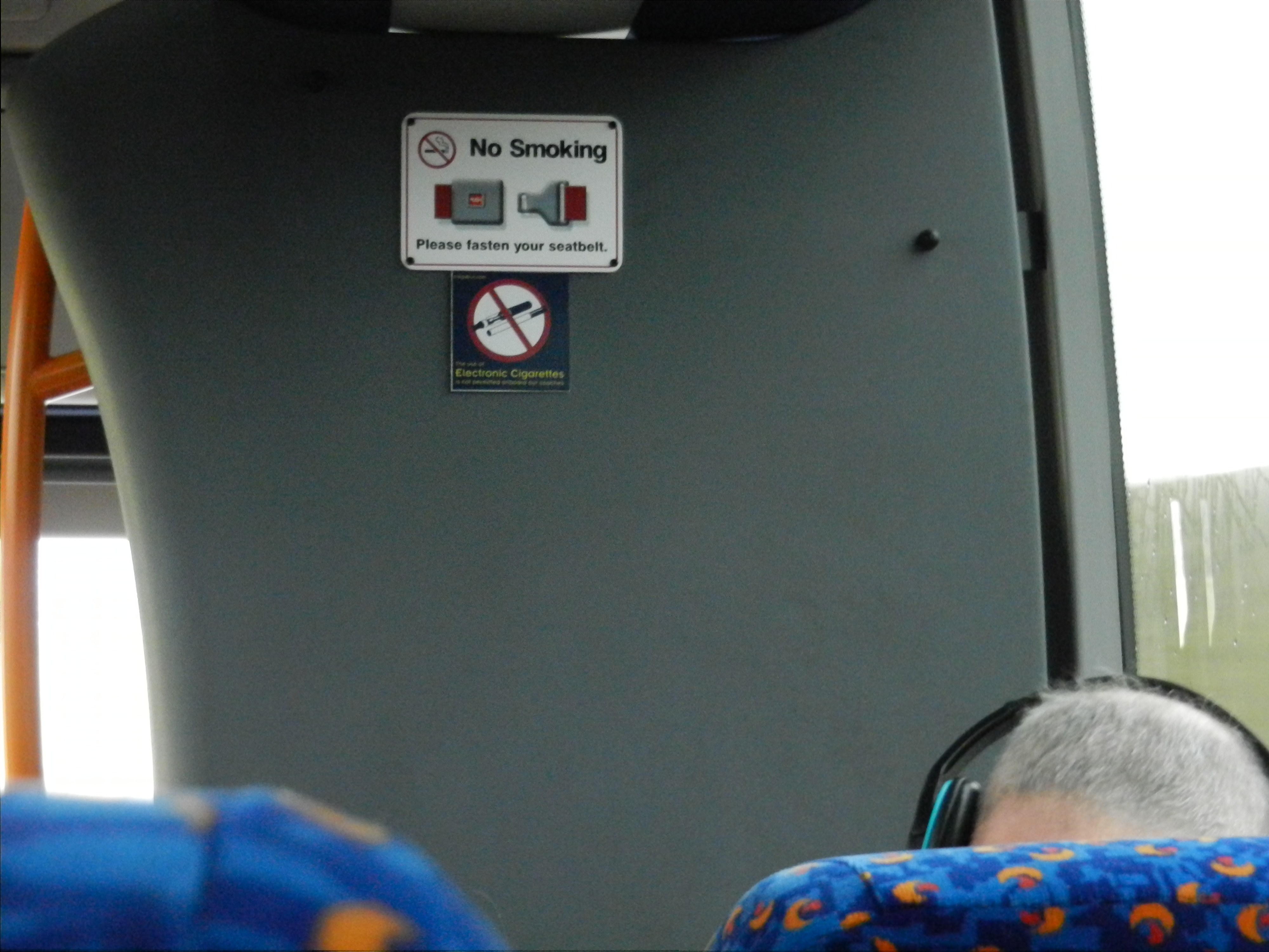 Waken up ! No e-cigarettes on public transport in Scotland